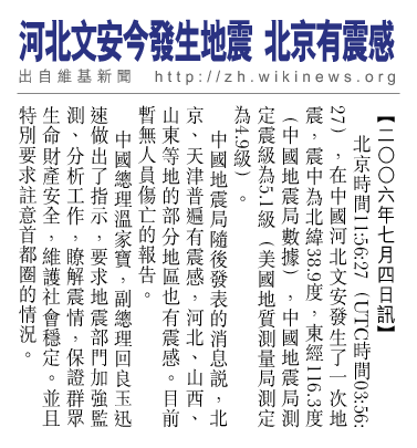 Vertical and horizontal writing in Chinese, using a Chinese Wikinews article as an example